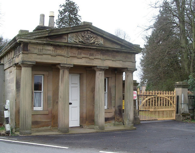 Gatehouse to Rickerby Park, Carlisle